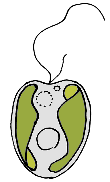 Ochromonas sp.